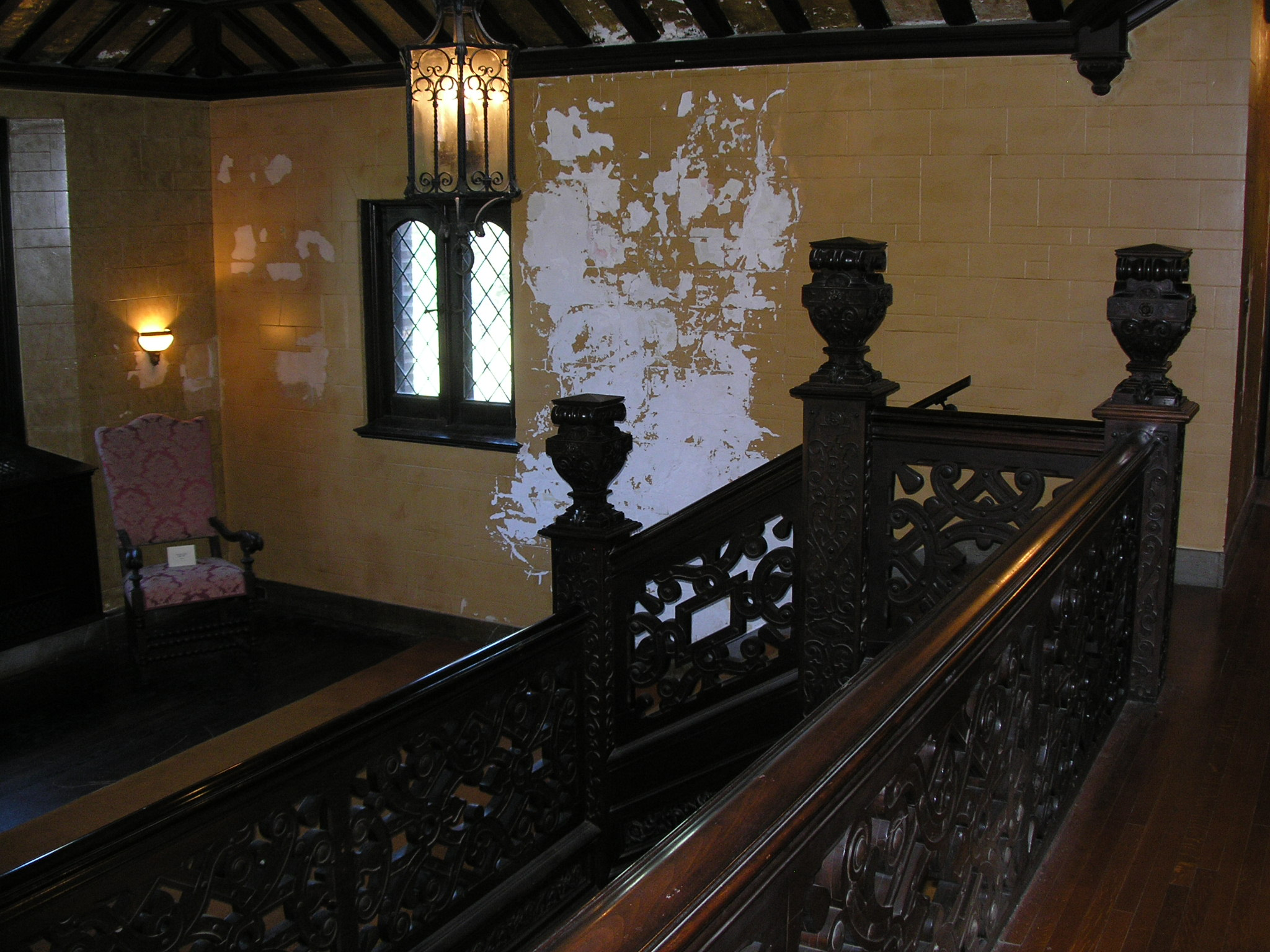 The Mayslake Peabody Estate in Oak Brook, IL.